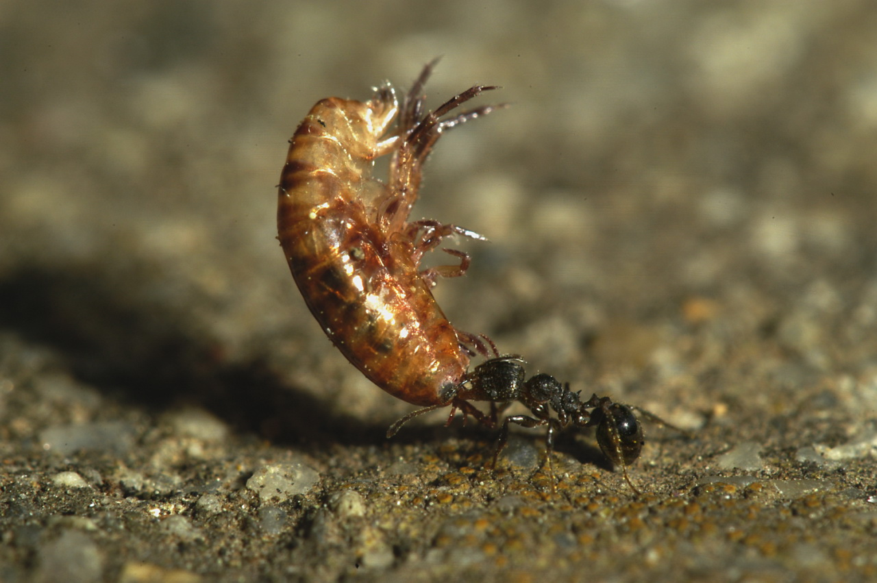 A Pheidole worker returns home with a prized catch, a terrestrial amphipod. It will be fed to the colony's larvae.